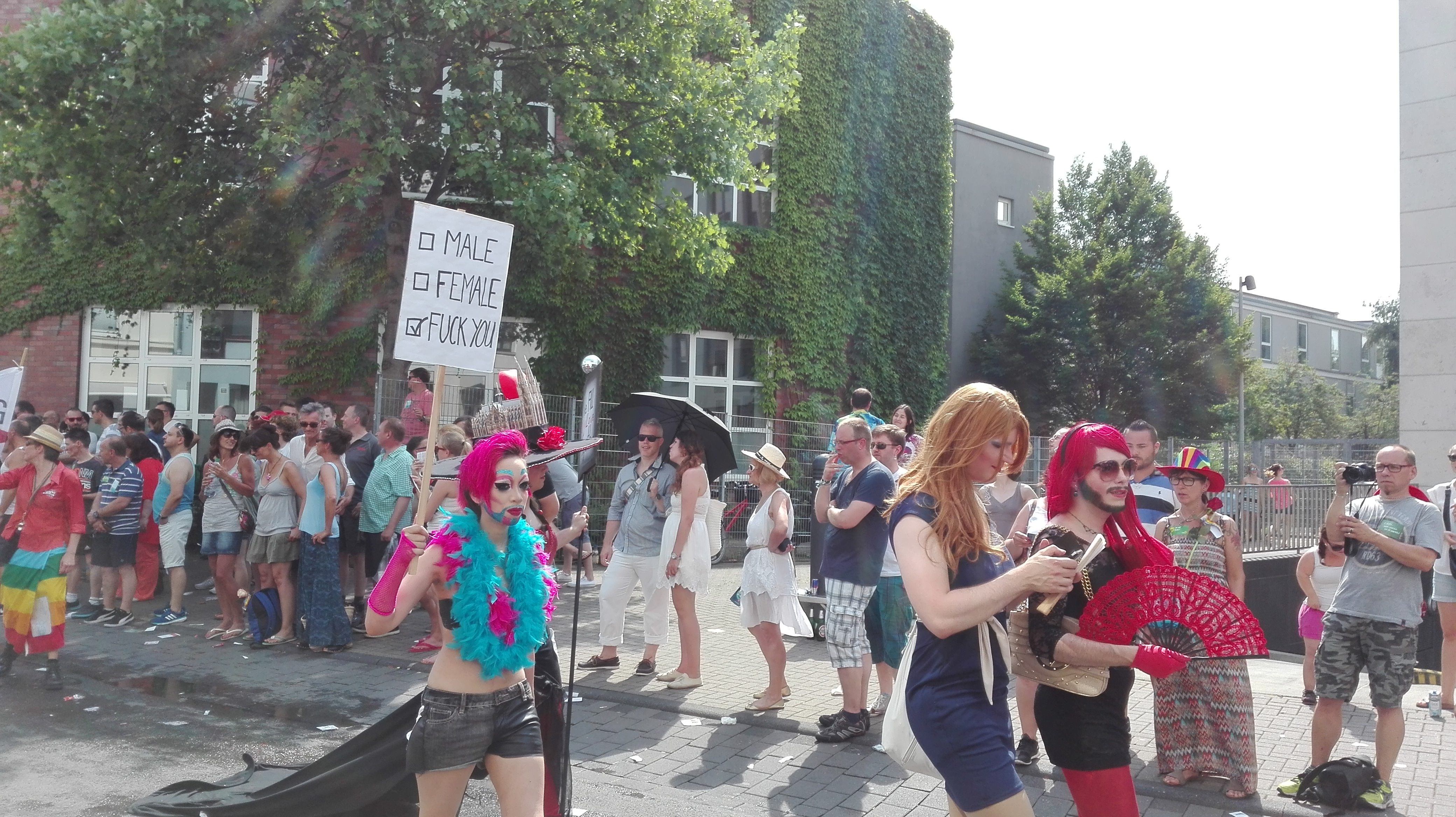 During ColognePride Parade, 2015